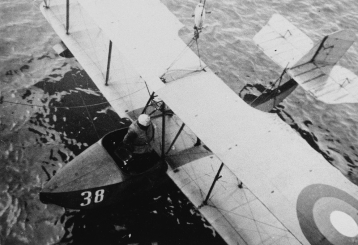 Russian Navy Grigorovich M-5 Type Flying Boat in the Black Sea in about 1915, during World War I. A Russian Navy Grigorovich M-5 Type Flying Boat, Serial Number 38, photographed in the Black Sea during World War I. Courtesy of Mr. Boris V. Drapshil of Margate, Florida, 1984.